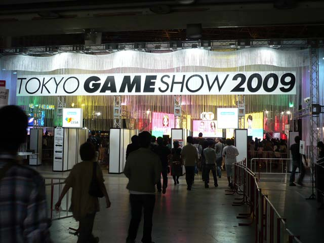 Gate of Tokyo Game Show 2009